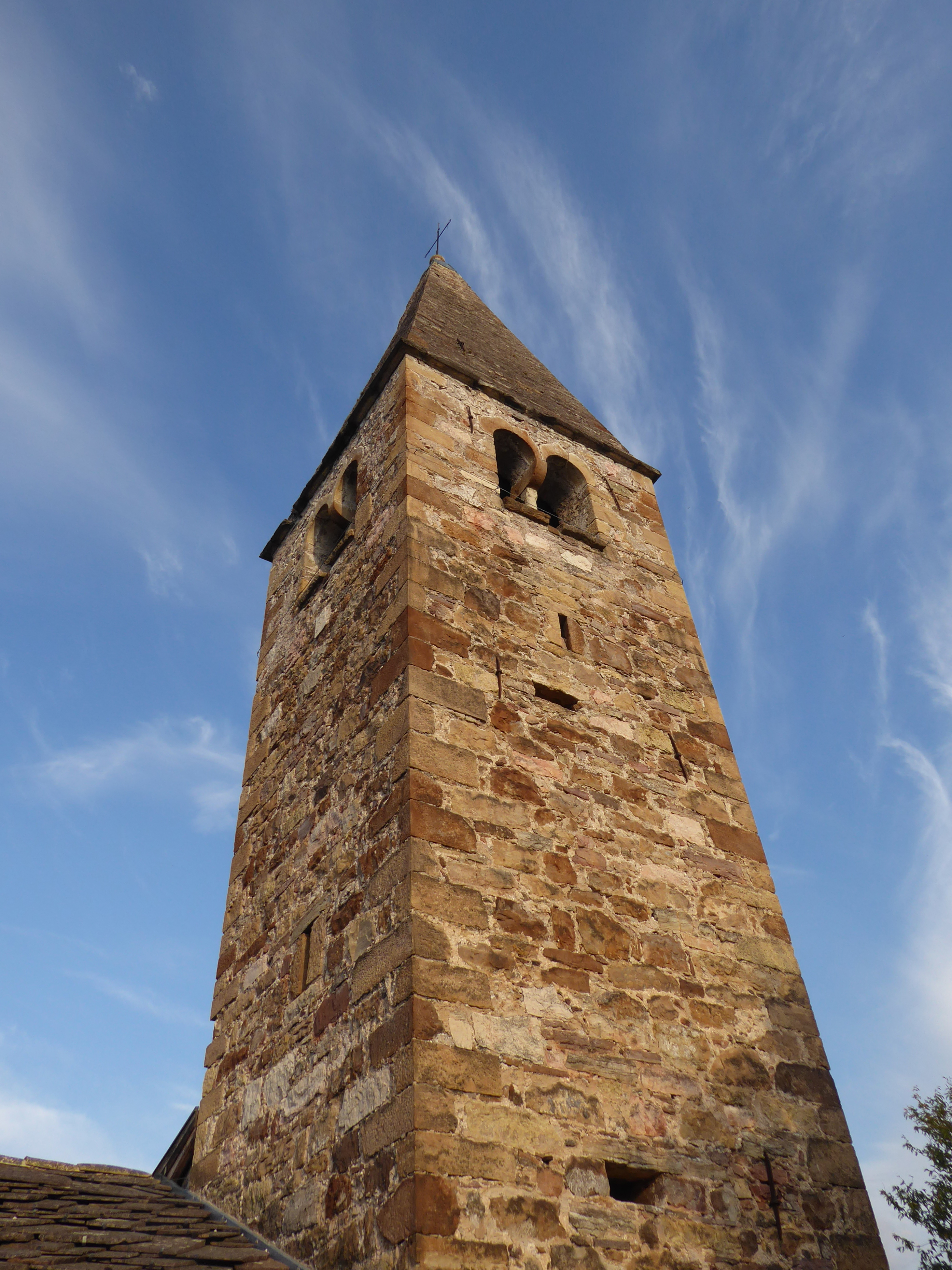 Saint Florian chuch's belltower in Valternigo (Giovo, Trentino, Italy)